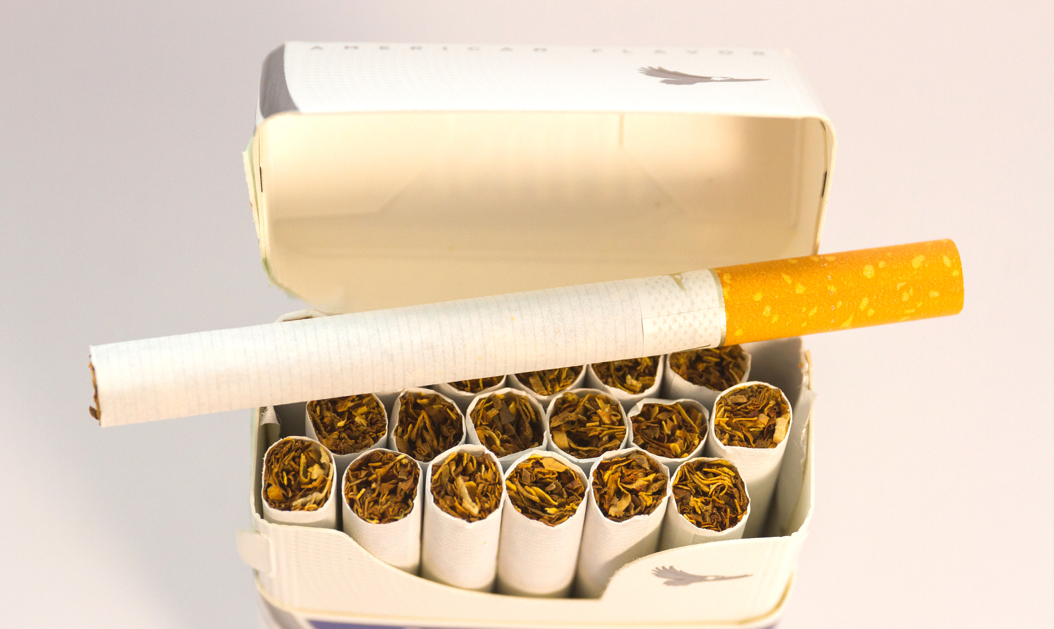 500px provided description: Cigarette [#concept ,#stop ,#background ,#health ,#isolated ,#white ,#smoking ,#cigarette ,#smoke ,#death ,#object ,#danger ,#butt ,#ashtray ,#pile ,#box ,#addiction ,#cigarettes ,#tobacco ,#bad ,#illness ,#nicotine ,#unhealthy ,#habit ,#cancer]